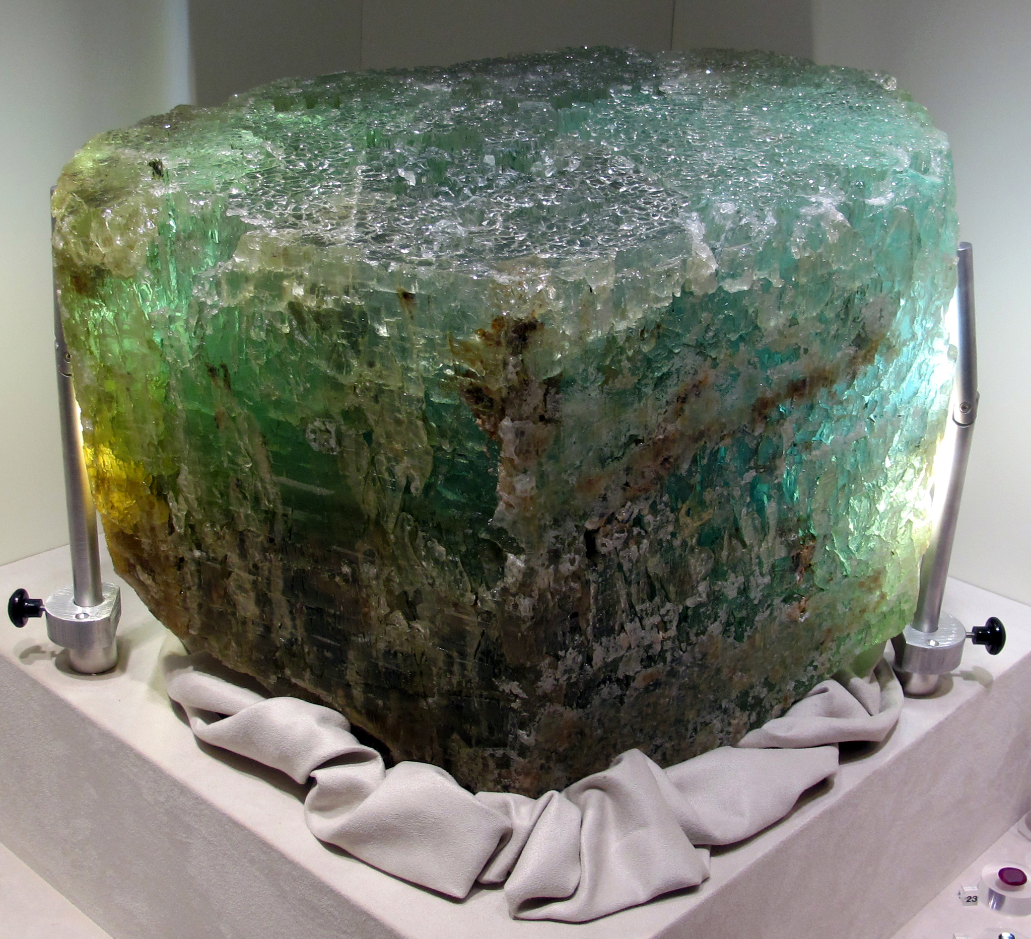 Museo di storia naturale (Florence) - Mineralogy section